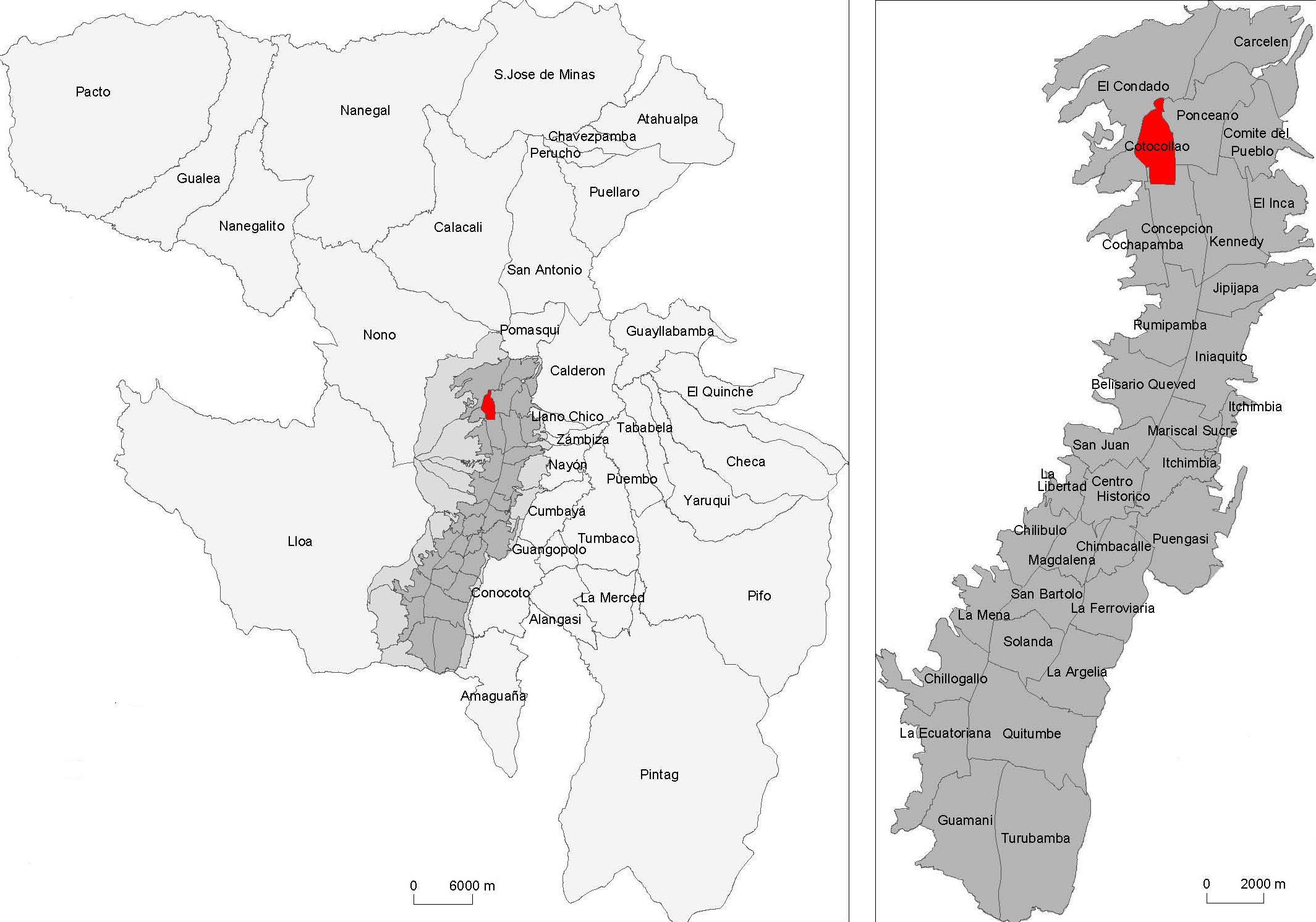 Map of parishes of Quito (2009)